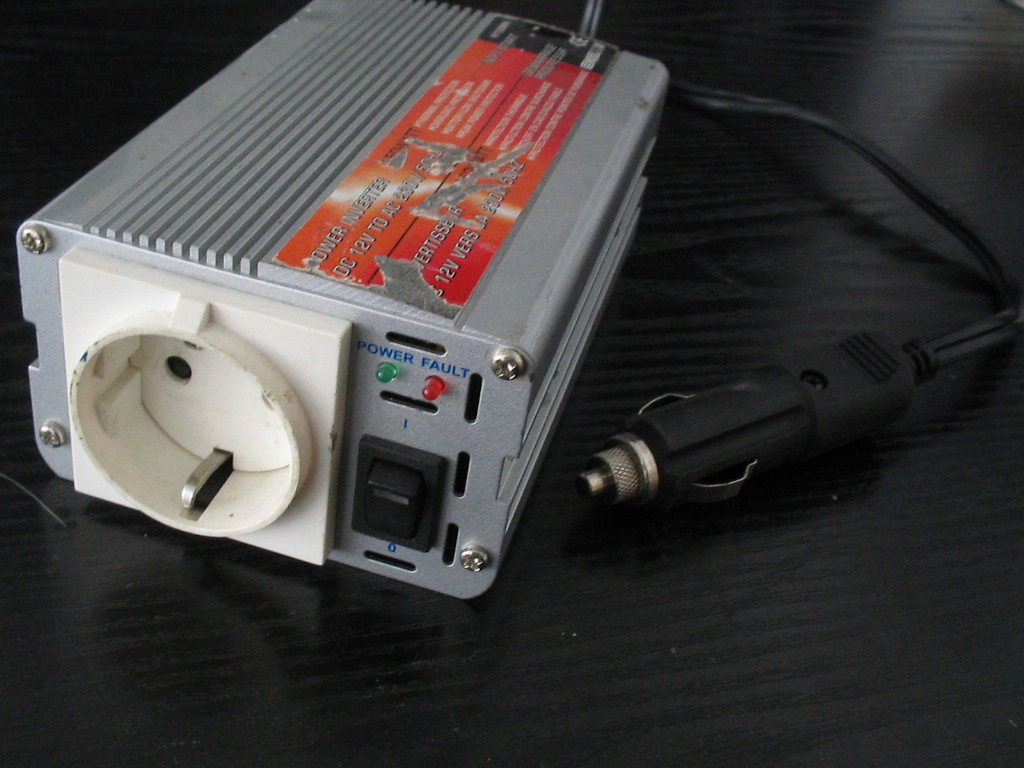 DC/AC Inverter.